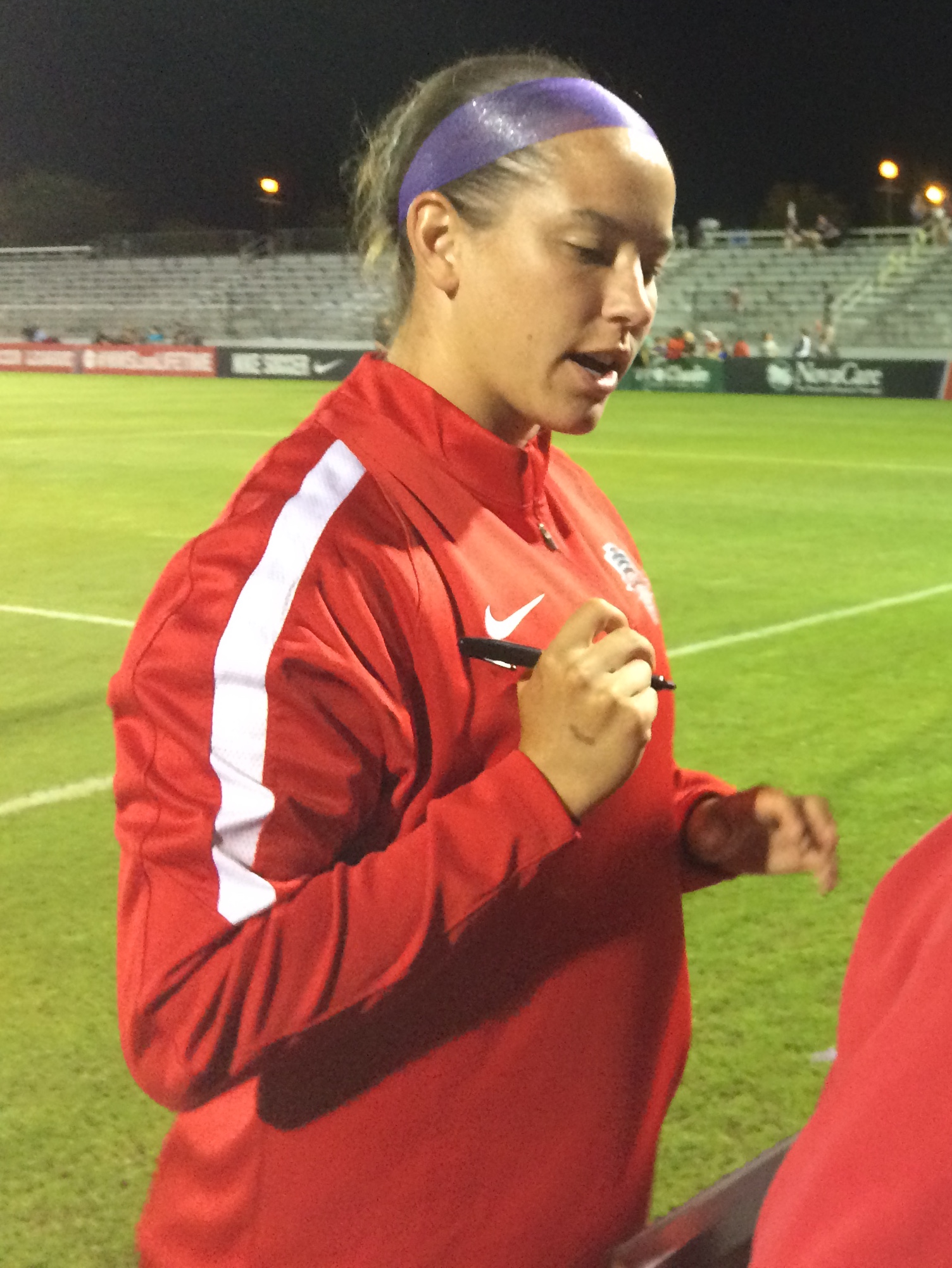 Whitney Church of the Washington Spirit, following a match vs Boston Breakers at the Maryland SoccerPlex, Boyds, MD.